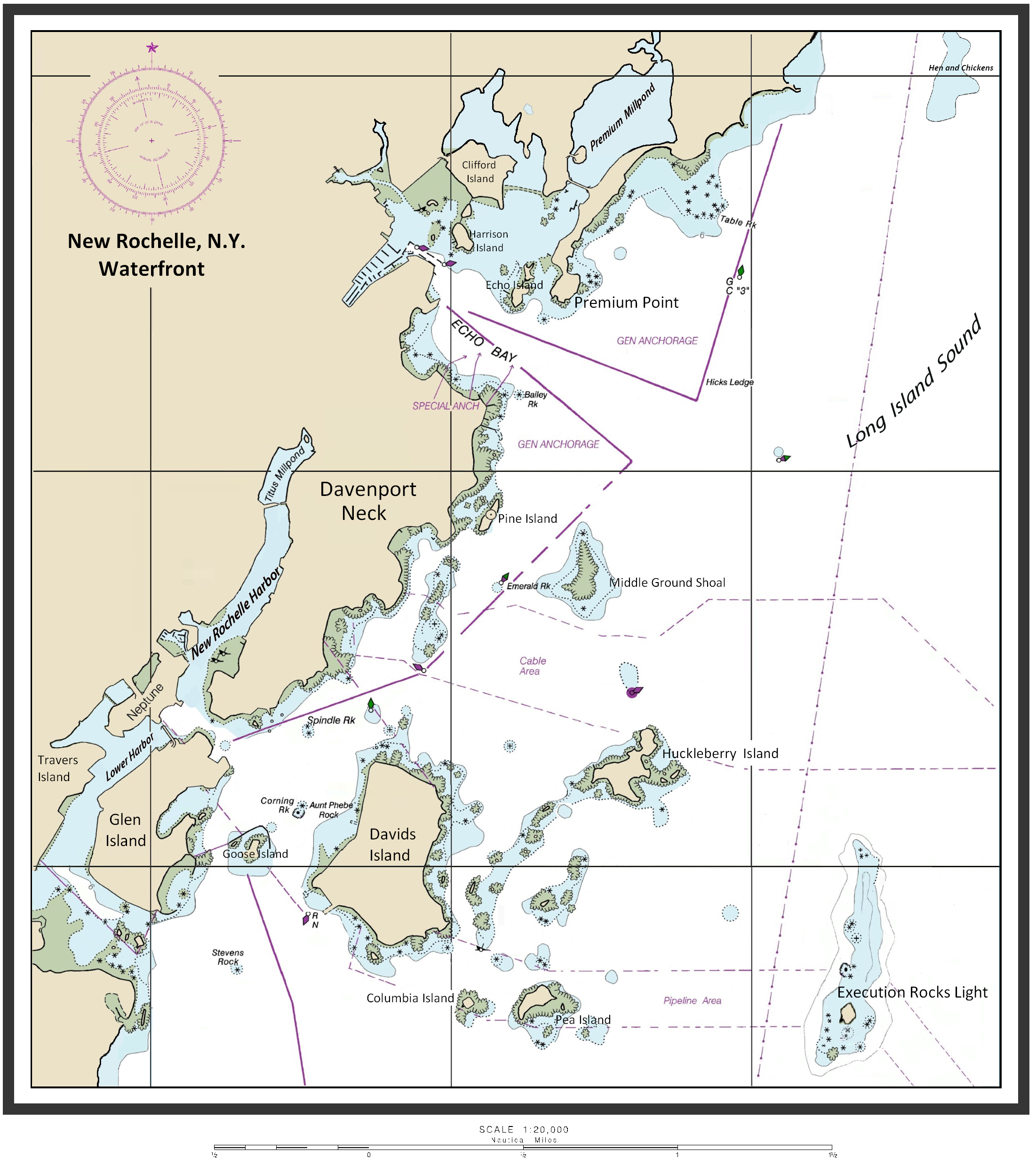 Map of New Rochelle waterfront including the harbor management areas, islands, and inlets.